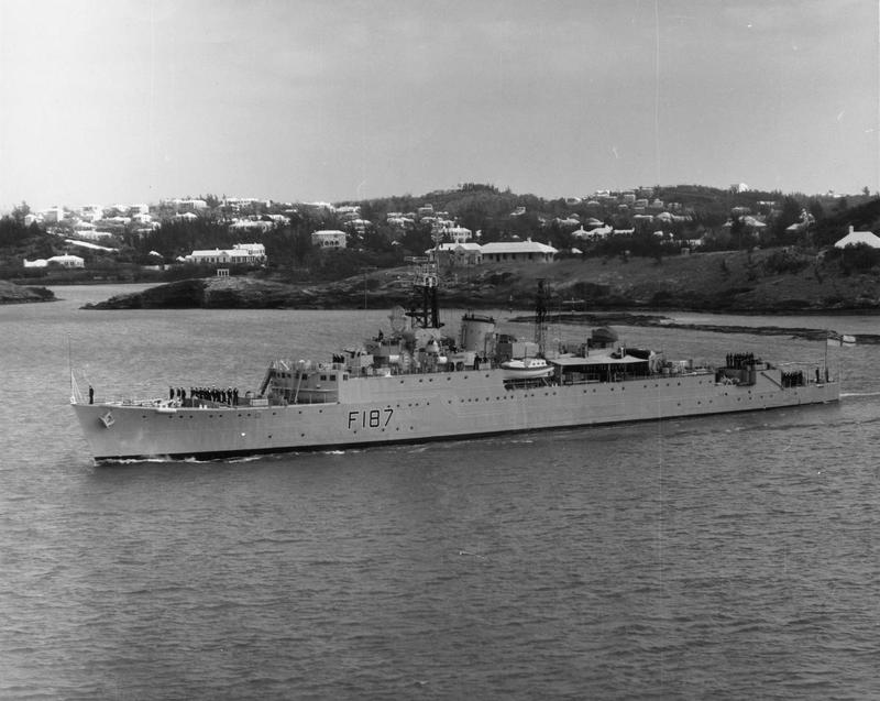 Type 15 Frigate HMS Whirlwind, c1965 (IWM HU 130047)